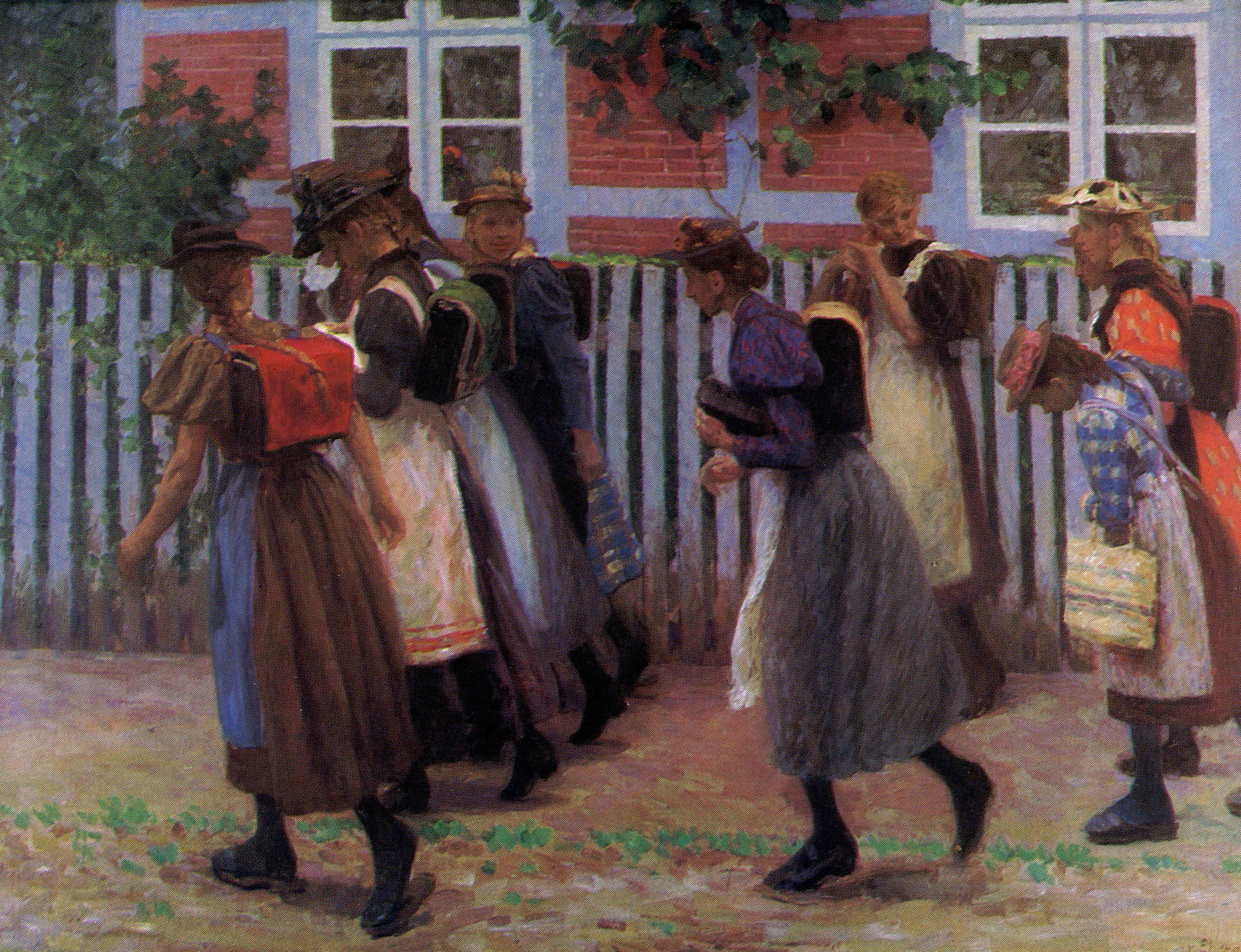 Julius von Ehren Schulmädchen in Himmelpforten 1899